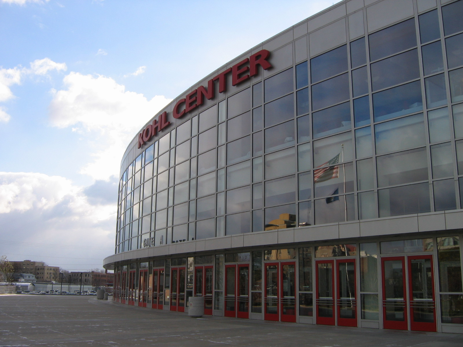 Football & Basketball Facilities U Wisconsin Arena